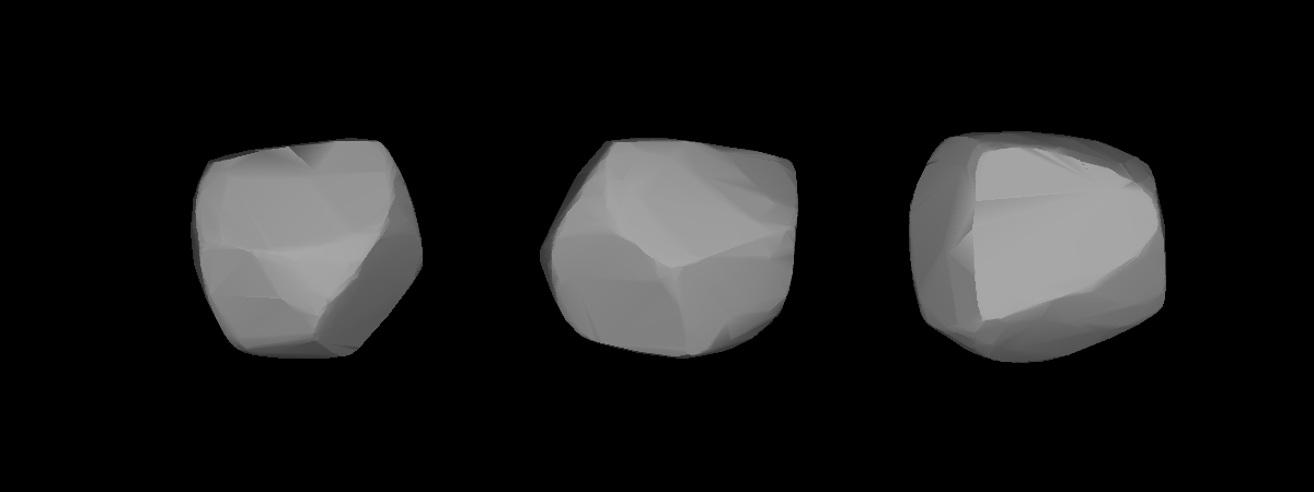 A three-dimensional model of 37 Fides that was computed using light curve inversion techniques.